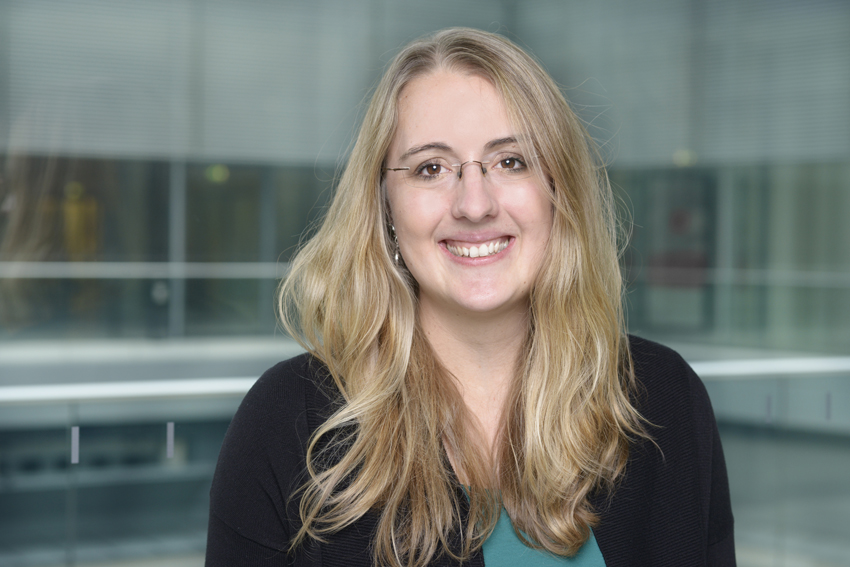 Katharina Dröge